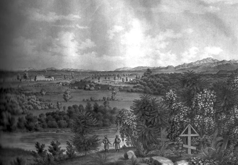 Old Ozurgeti